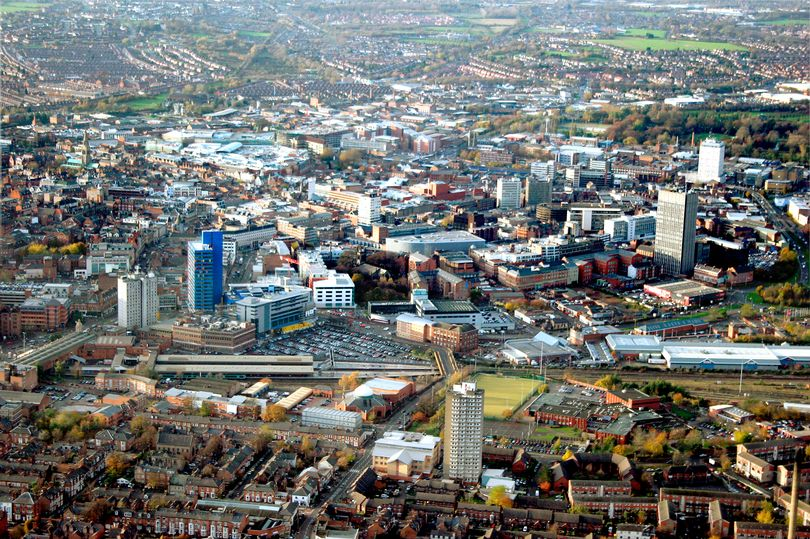 Aerial-Leicester 2017